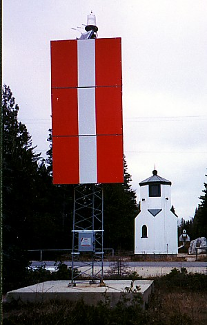 Taken by me, Jjegers